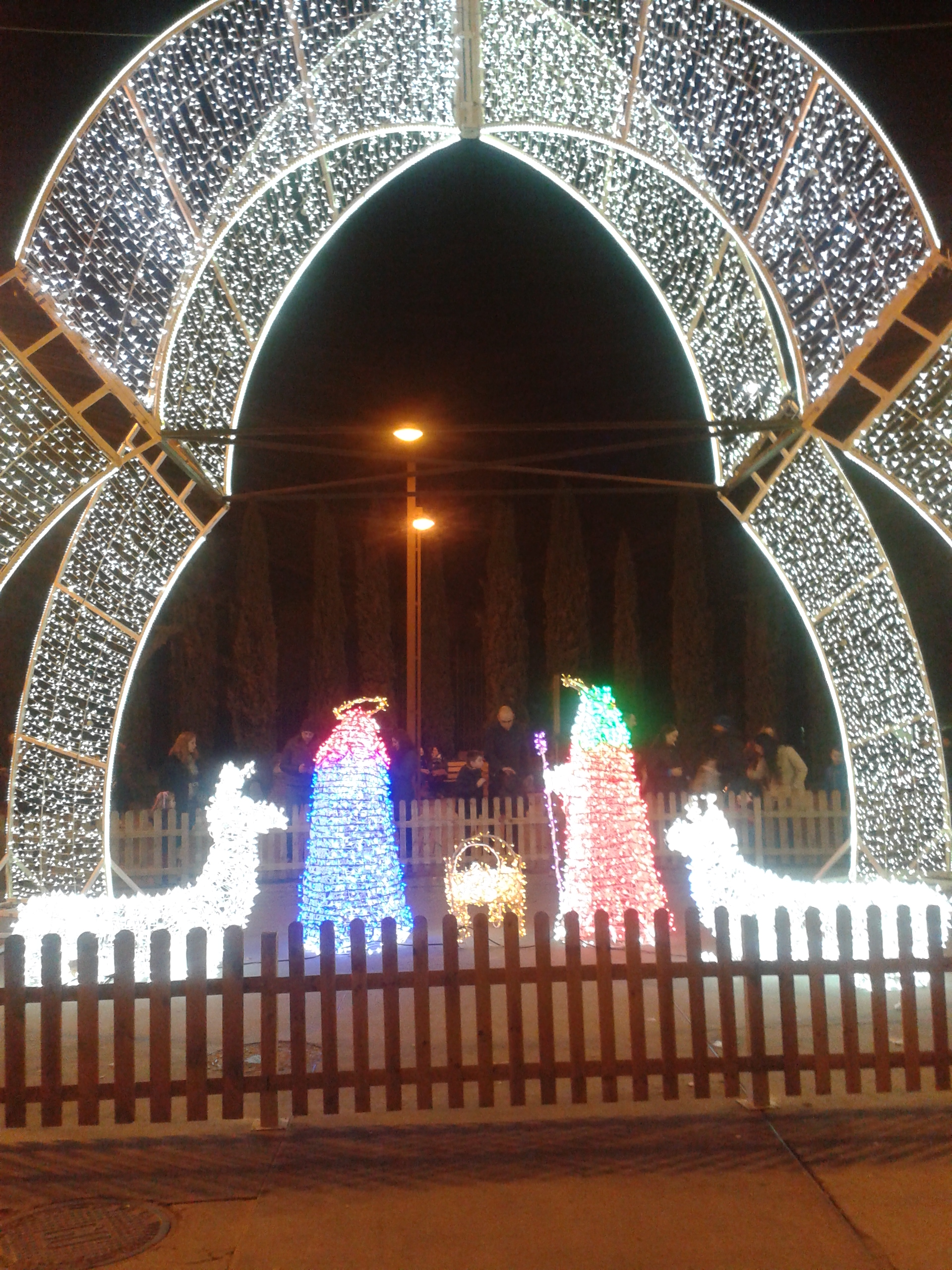 Christmas in Guadalajara, Spain.